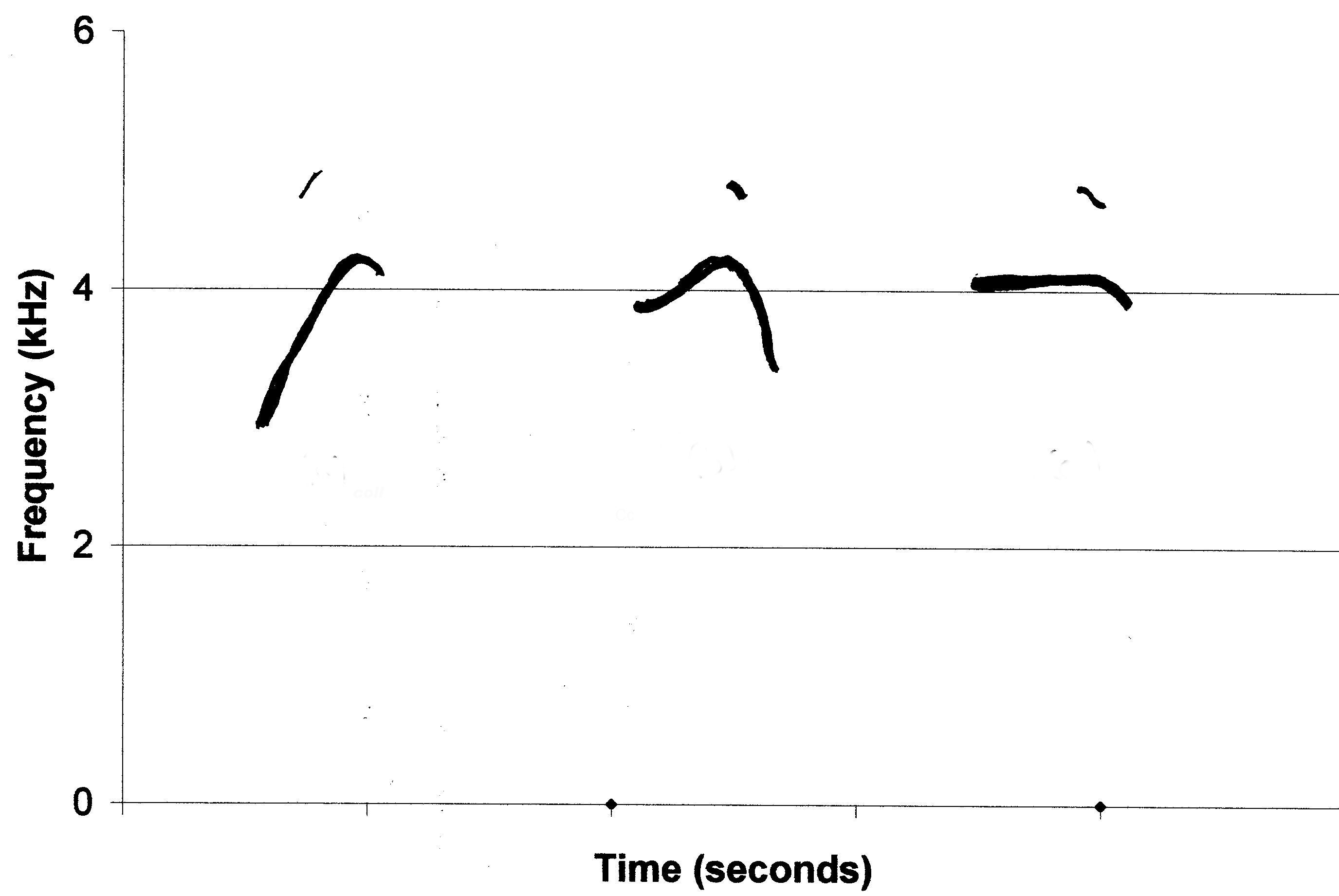 Spectrogram of chiffchaff